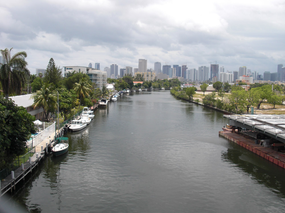 View of the Miami River from NW 12 AVE Bridge